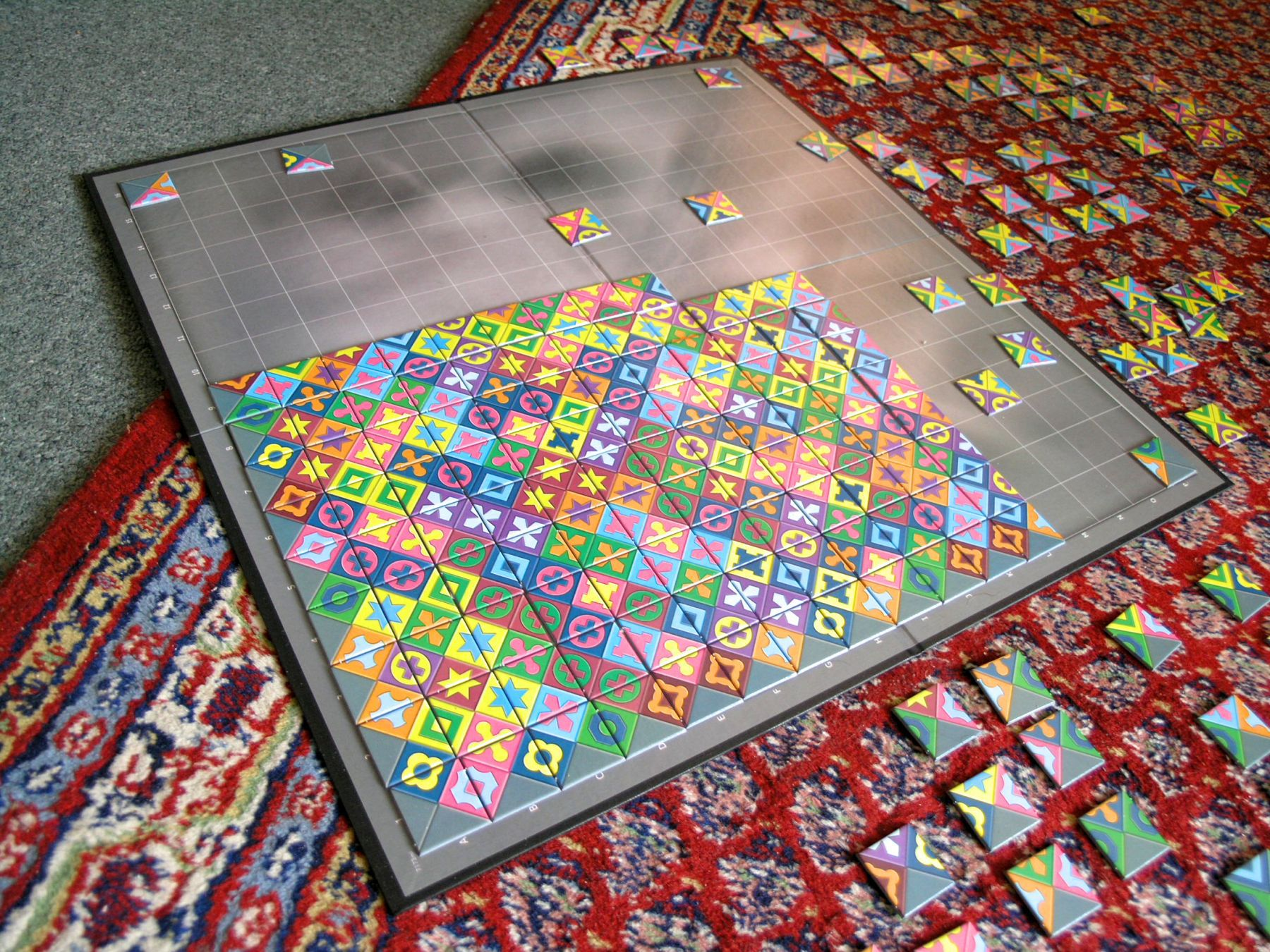 Eternity II